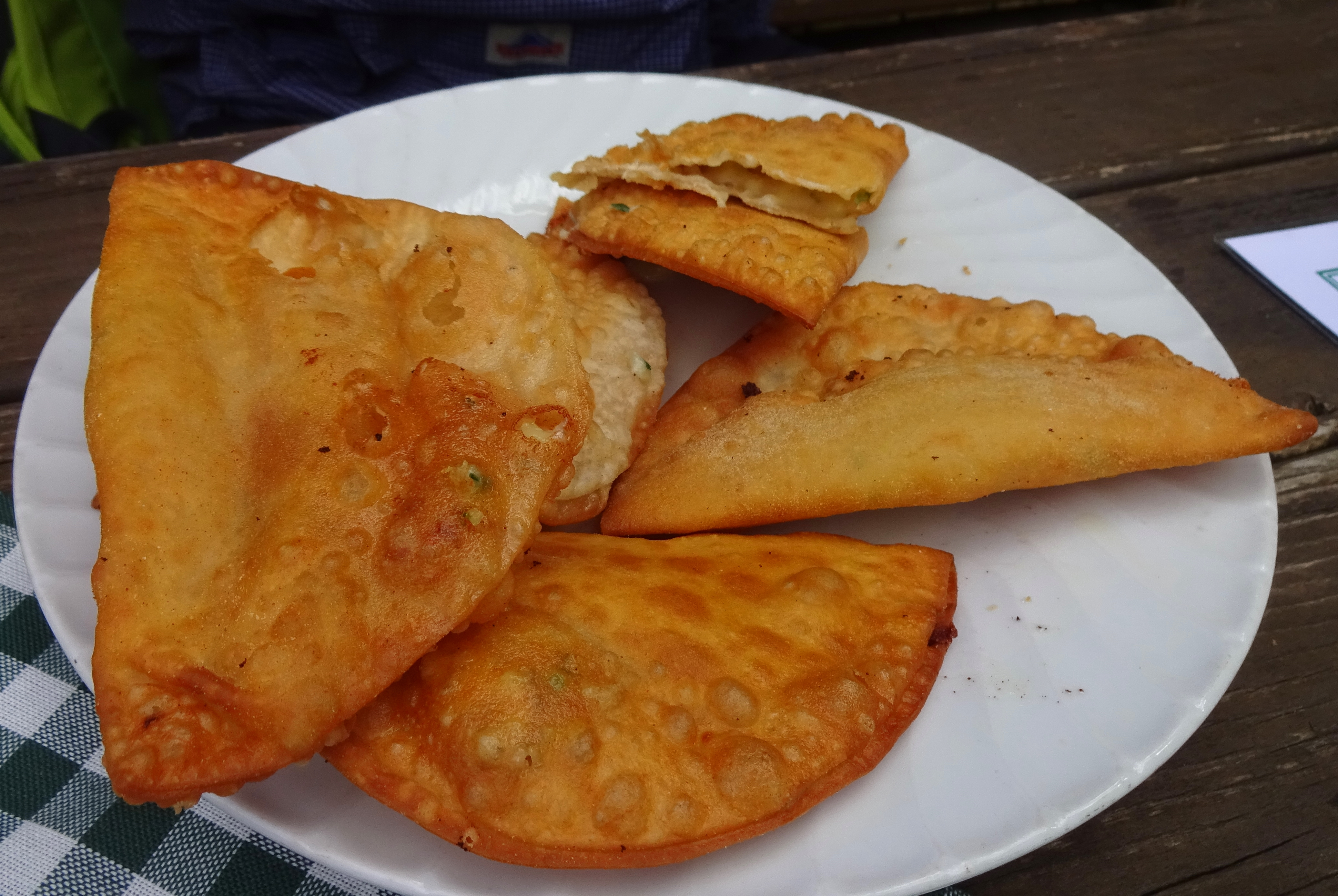 Zillertaler Krapfen are made from flour, milk, potatoes, butter, cheese or curd cheese according to the recipe and then baked floating in hot fat. Photographed in Helmut's Fischerhütte at Schlegeisspeicher.